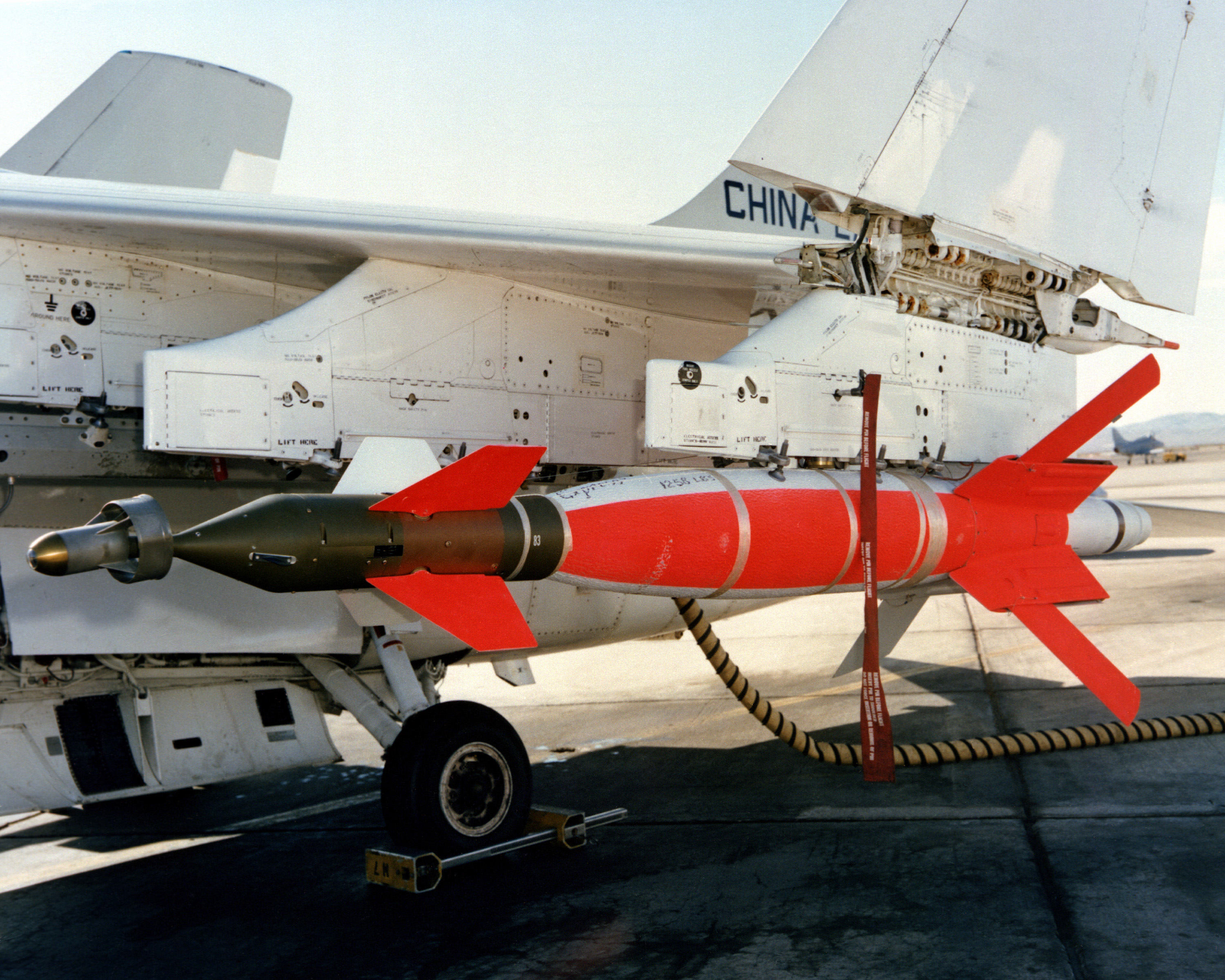 A AGM-123A Skipper II low-level laser-guided bomb mounted on the wing pylon of a Vought A-7 Corsair aircraft at the U.S. Naval Weapons Center, China Lake, California (USA), on 1 May 1985.